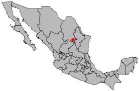 Location of Saltillo, Coahuila, Mexico